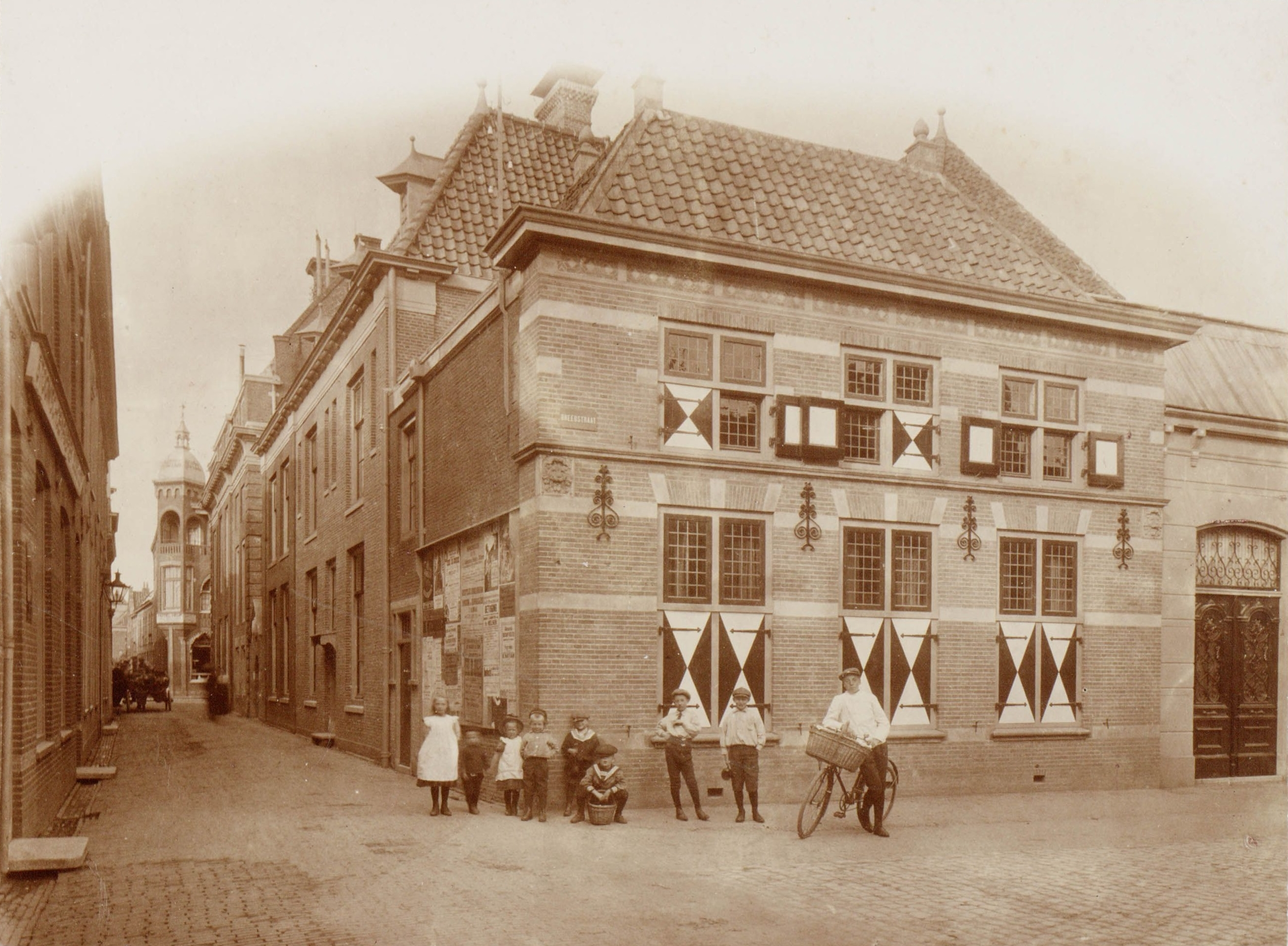 The Stedelijk Museum Alkmaar at the Breedstraat around 1905.